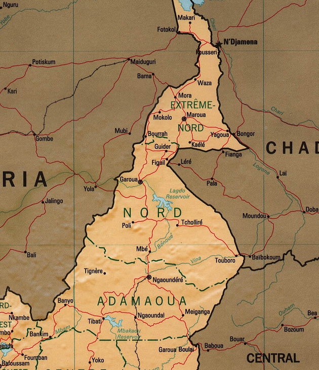 Map showing Lagdo Reservoir in Cameroon.